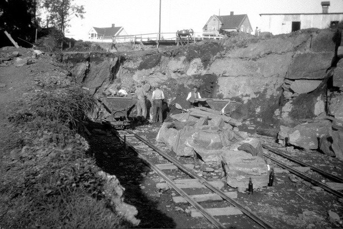 Construction of the extension of the Lilleaker Line (today the Kolsås Line) between Bekkestua and Haslum.